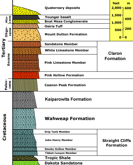 Stratigraphy of Bryce Canyon National Park